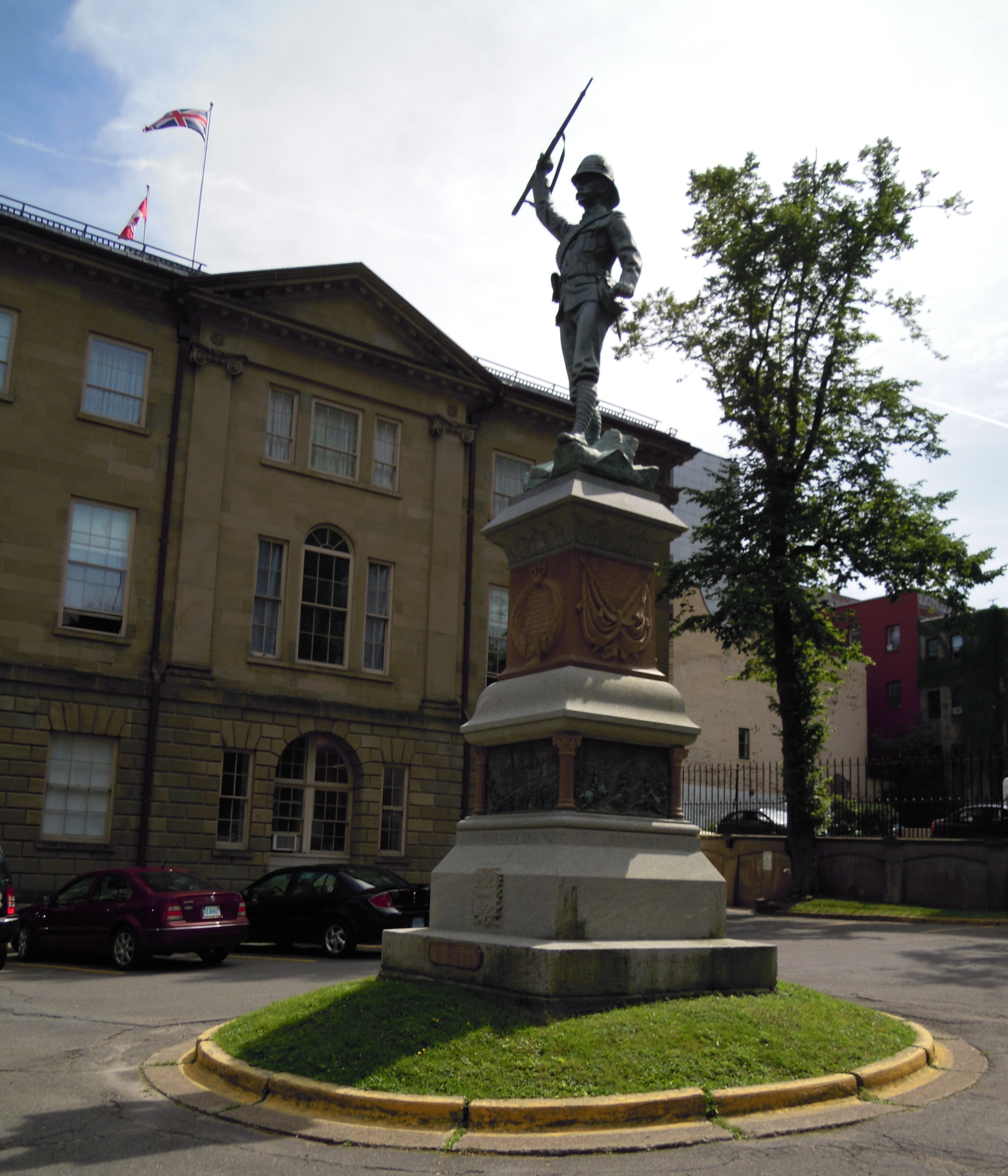 Boer War Memorial at Province House in Halifax, Nova Scotia, Canada, dedicated by the Duke of Cornwell and York on October 19, 1901.